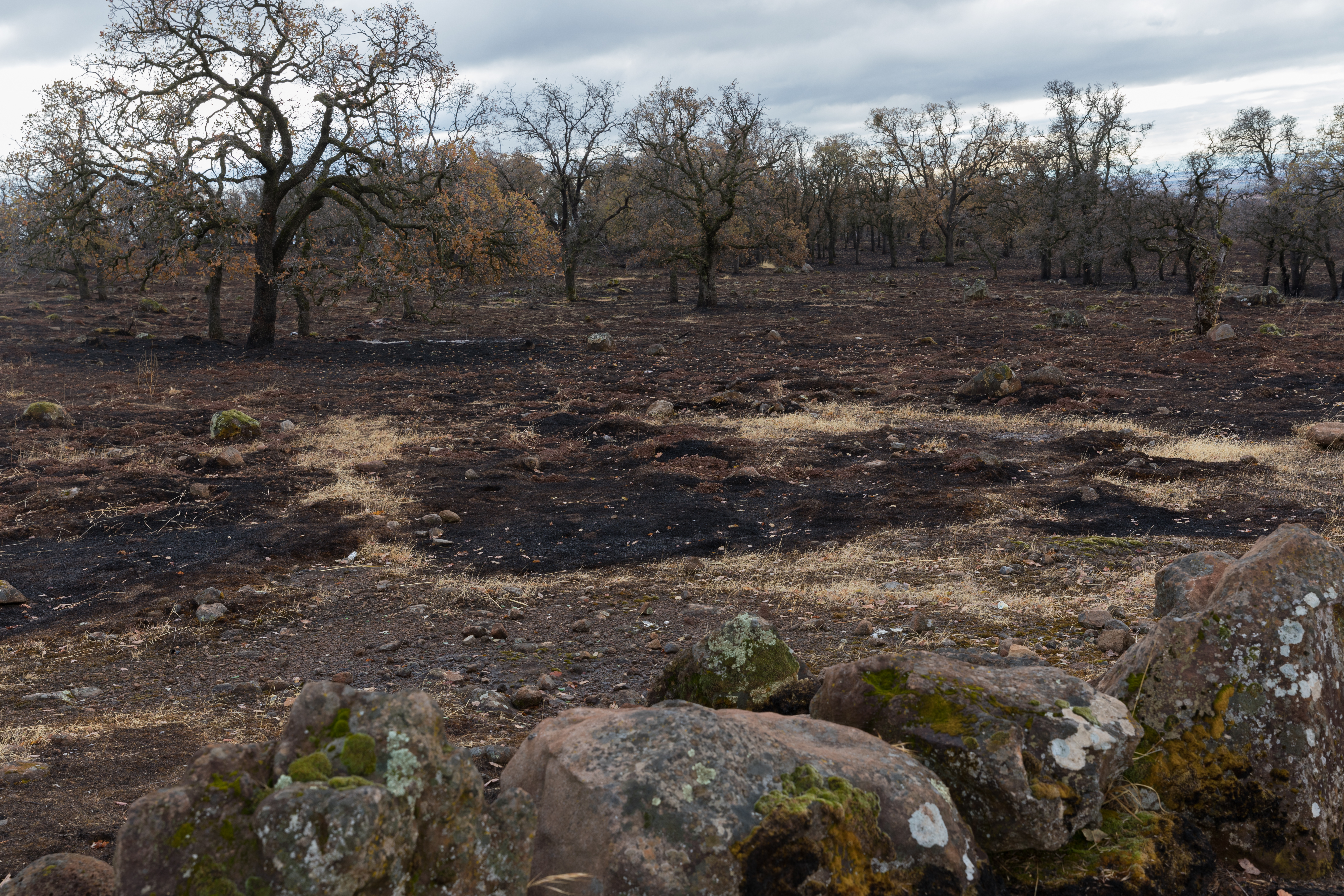 Trees burnt during the Camp Fire along Humboldt Road, Chico, Butte County, as seen on November 24, 2018